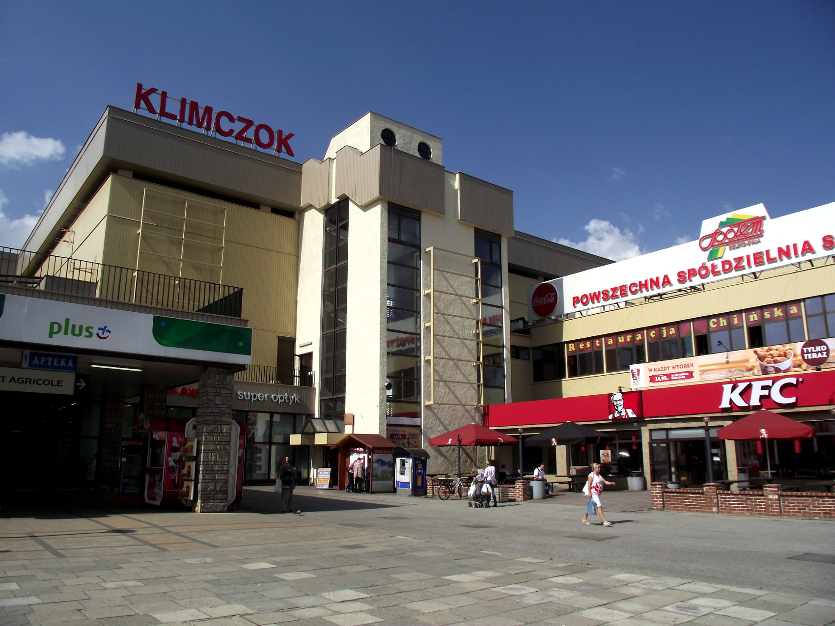 Klimczok department store in Bielsko-Biała, Poland.